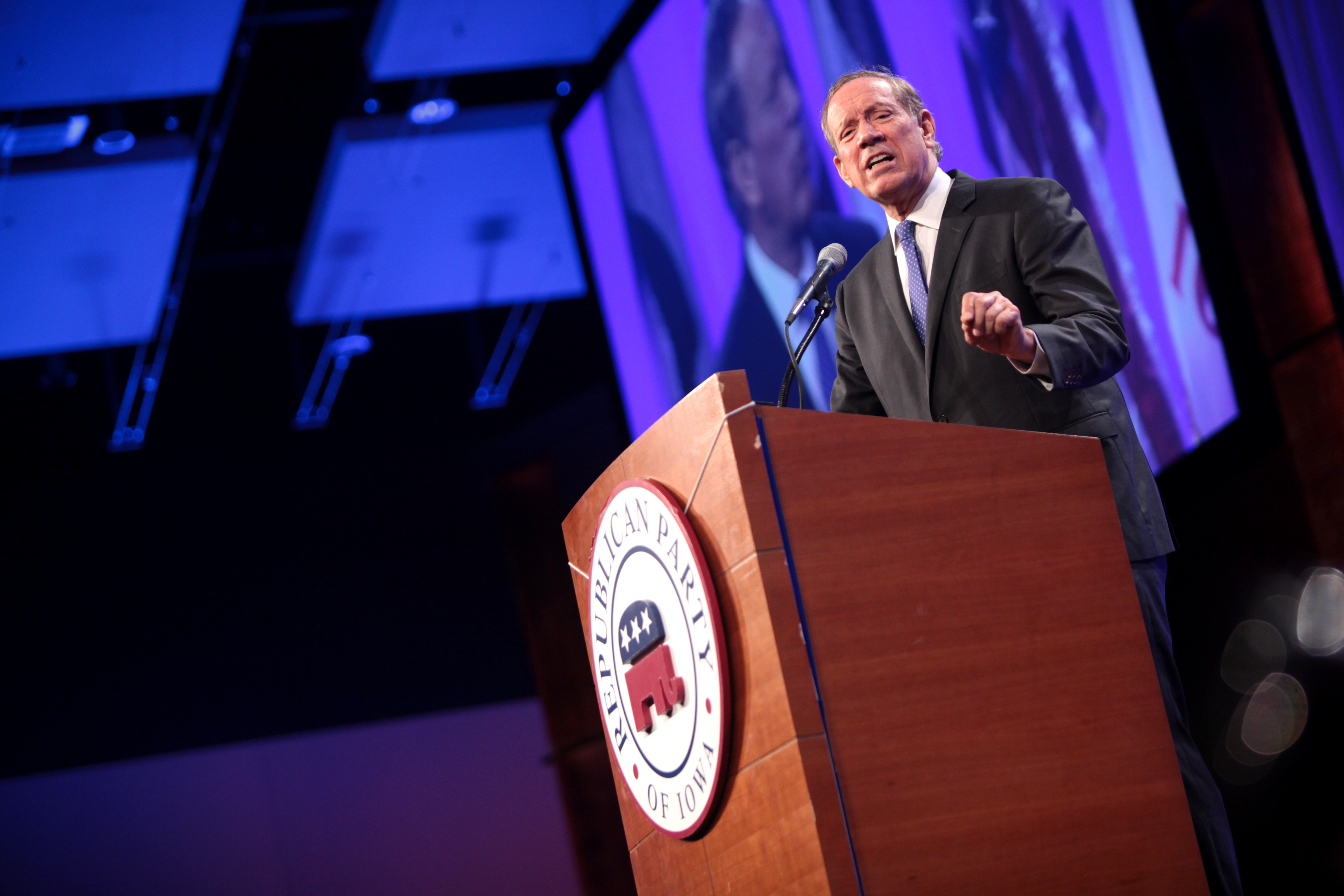 George Pataki speaking at an event in Des Moines, Iowa.